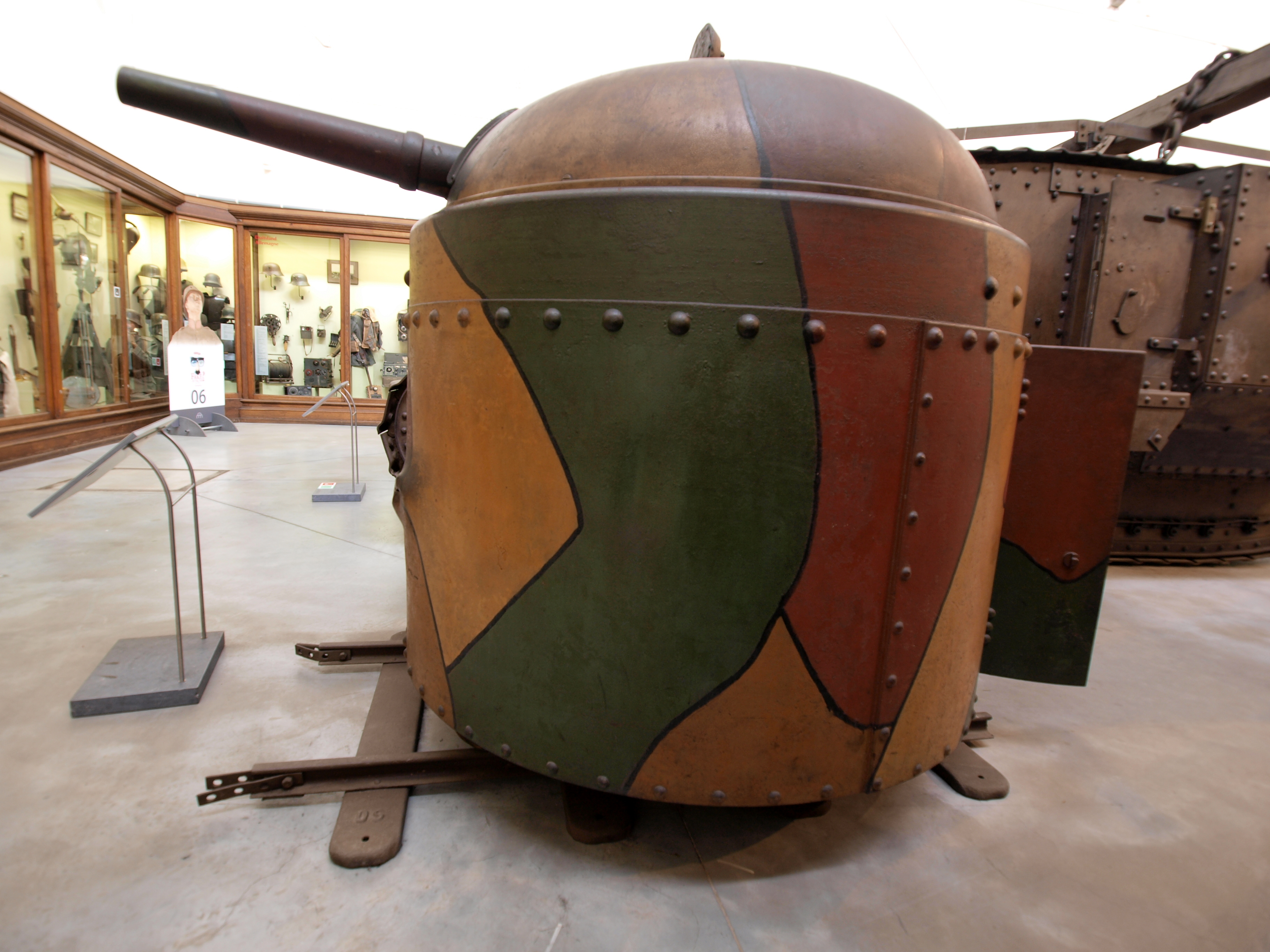 Photo taken at the Royal Military History Museum, Brussels, Belgium.